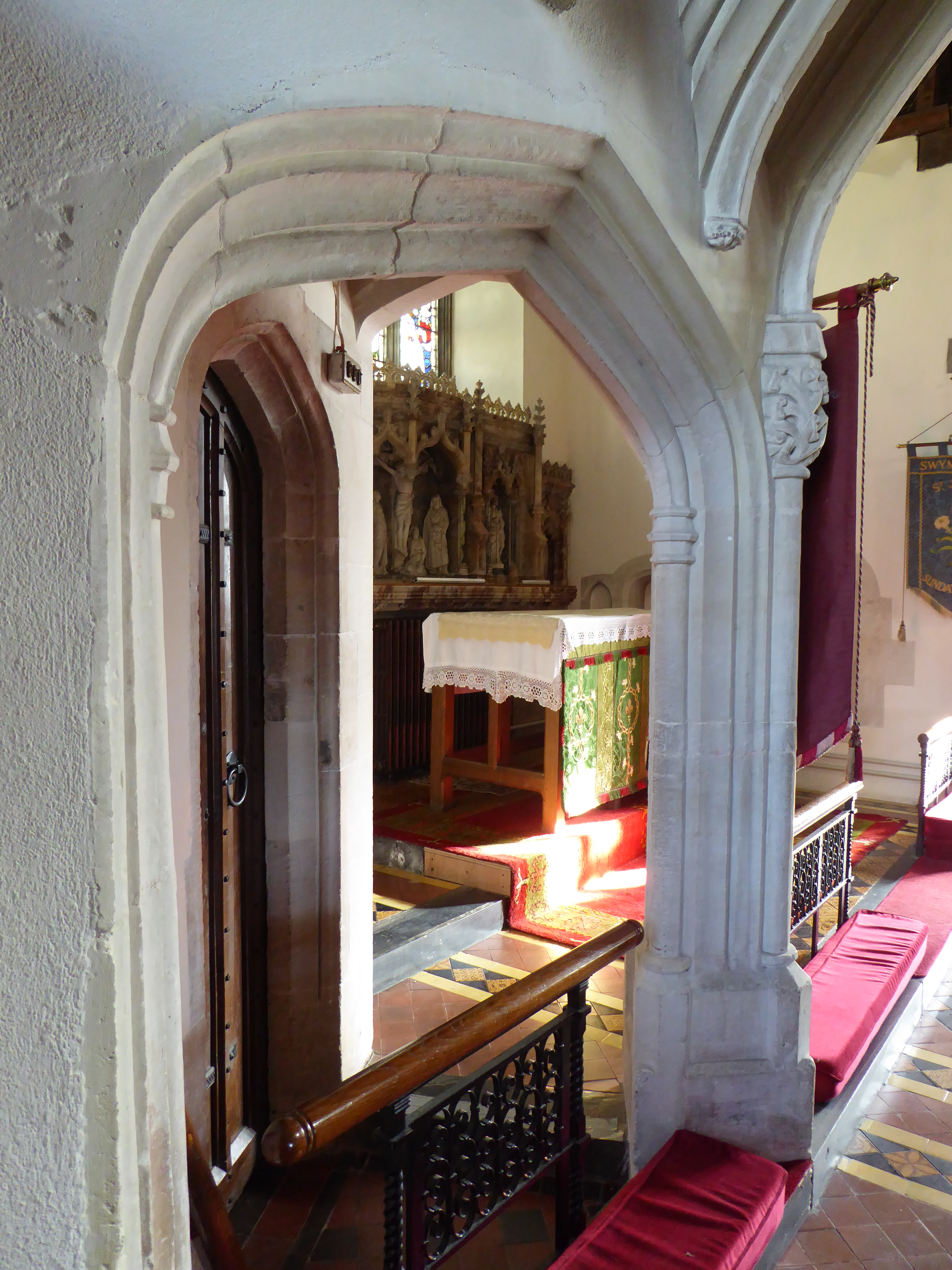 Squint (Hagioscope) providing view of high altar of Swimbridge Church from within St Bridget's Chapel (North Aisle Chapel). View towards south-east.